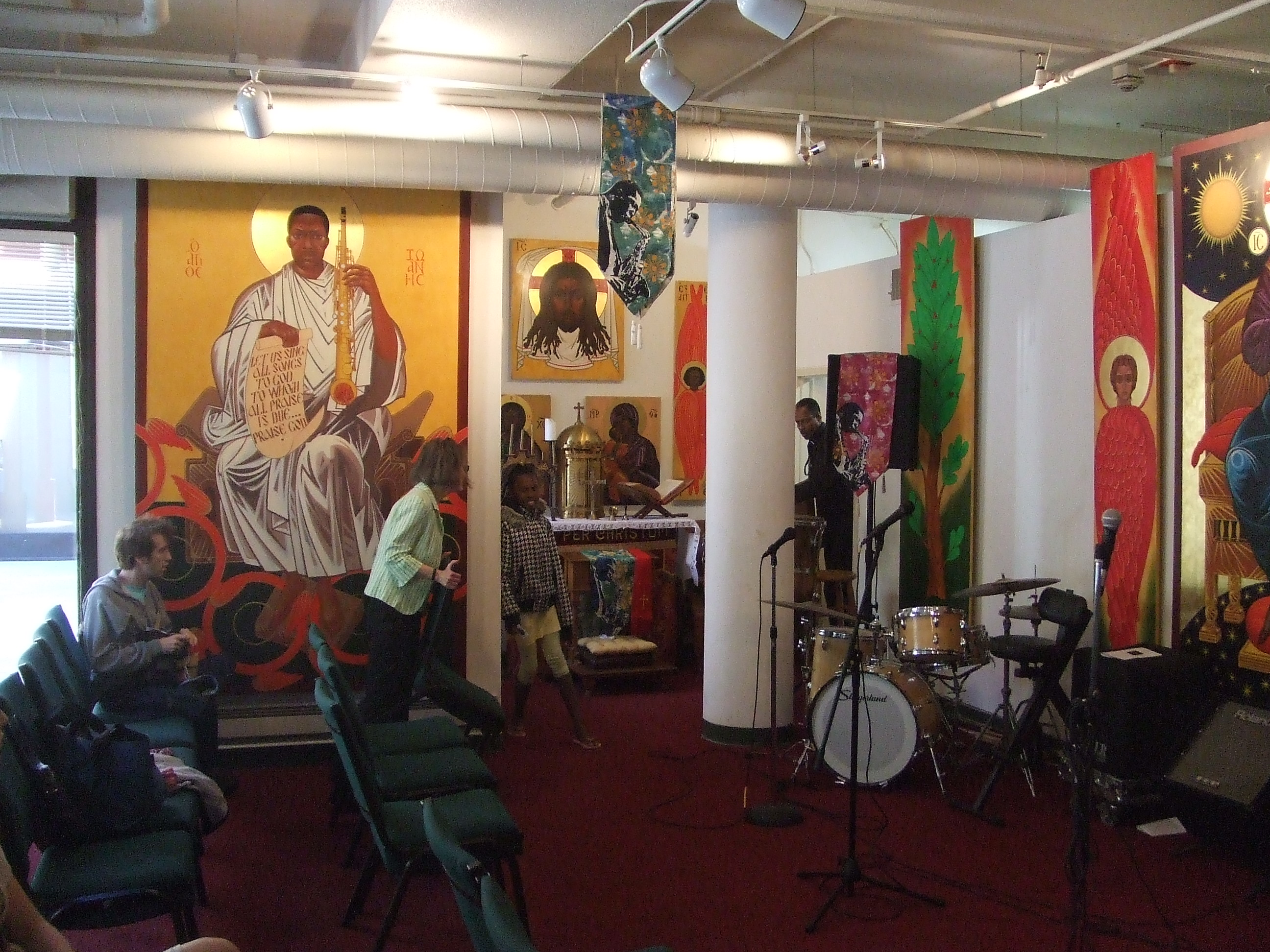 Coltrane Church San Francisco